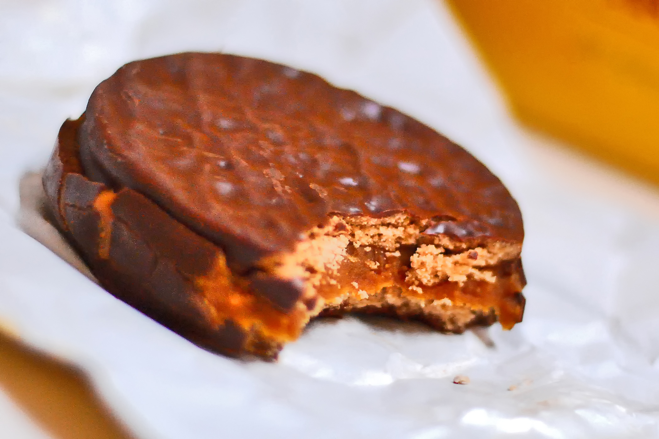 Alfajor is a traditional cookie